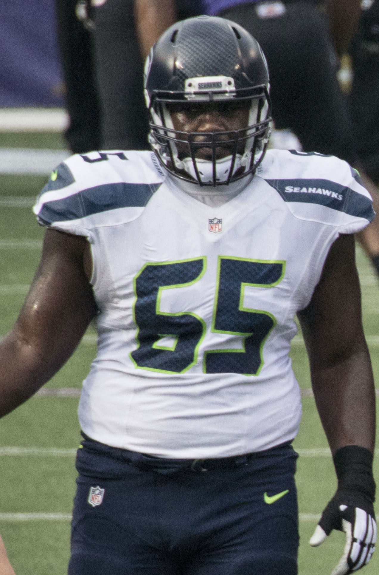 Seahawks at Ravens 12/13/15